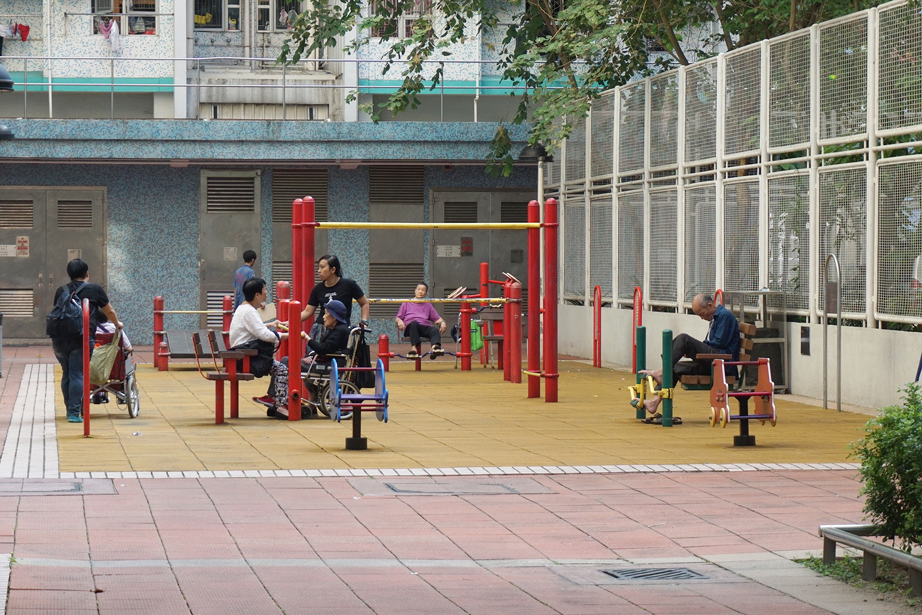 Oi Tung Estate in Shau Kei Wan, Hong Kong.